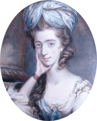 Portrait of Eleanor Wilson, second daughter of Christopher Wilson I, English banker.